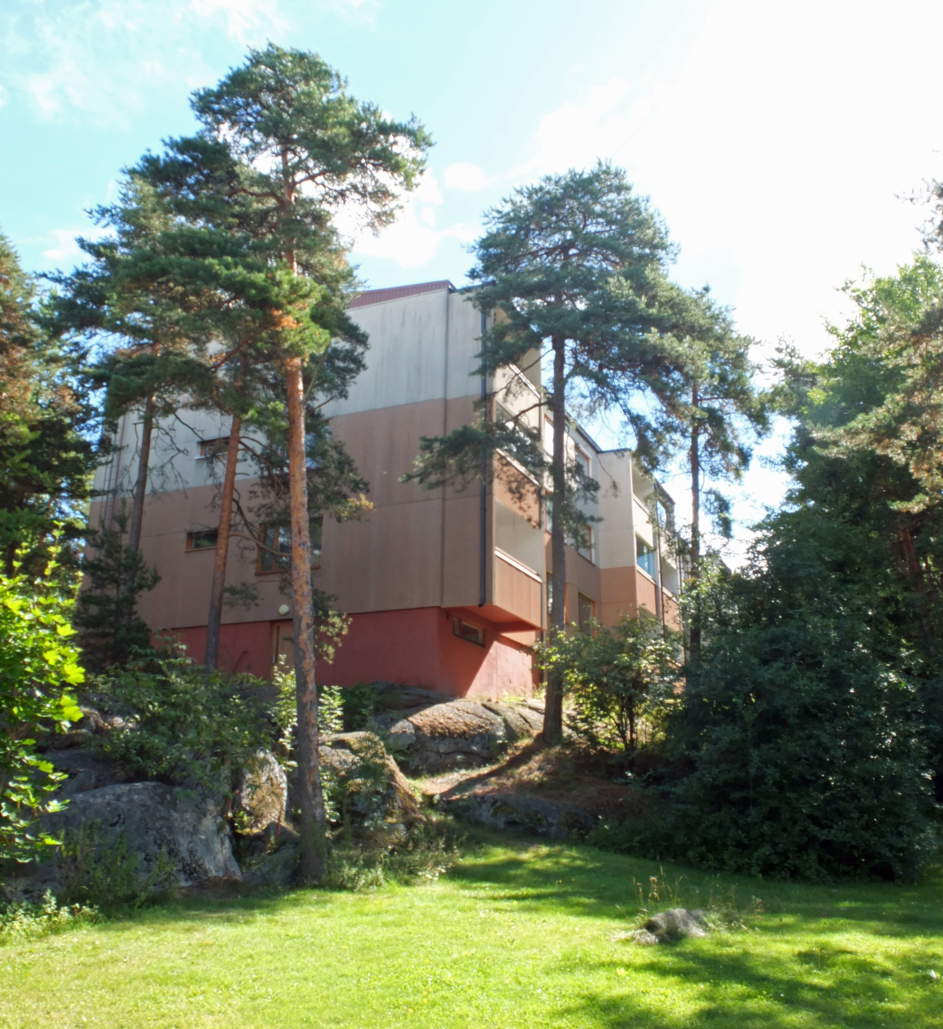 Block of flats in Vienola, a western suburb of Turku, Finland. Corner of Vienolanrinne and Vienolanpolku streets, summer 2013.